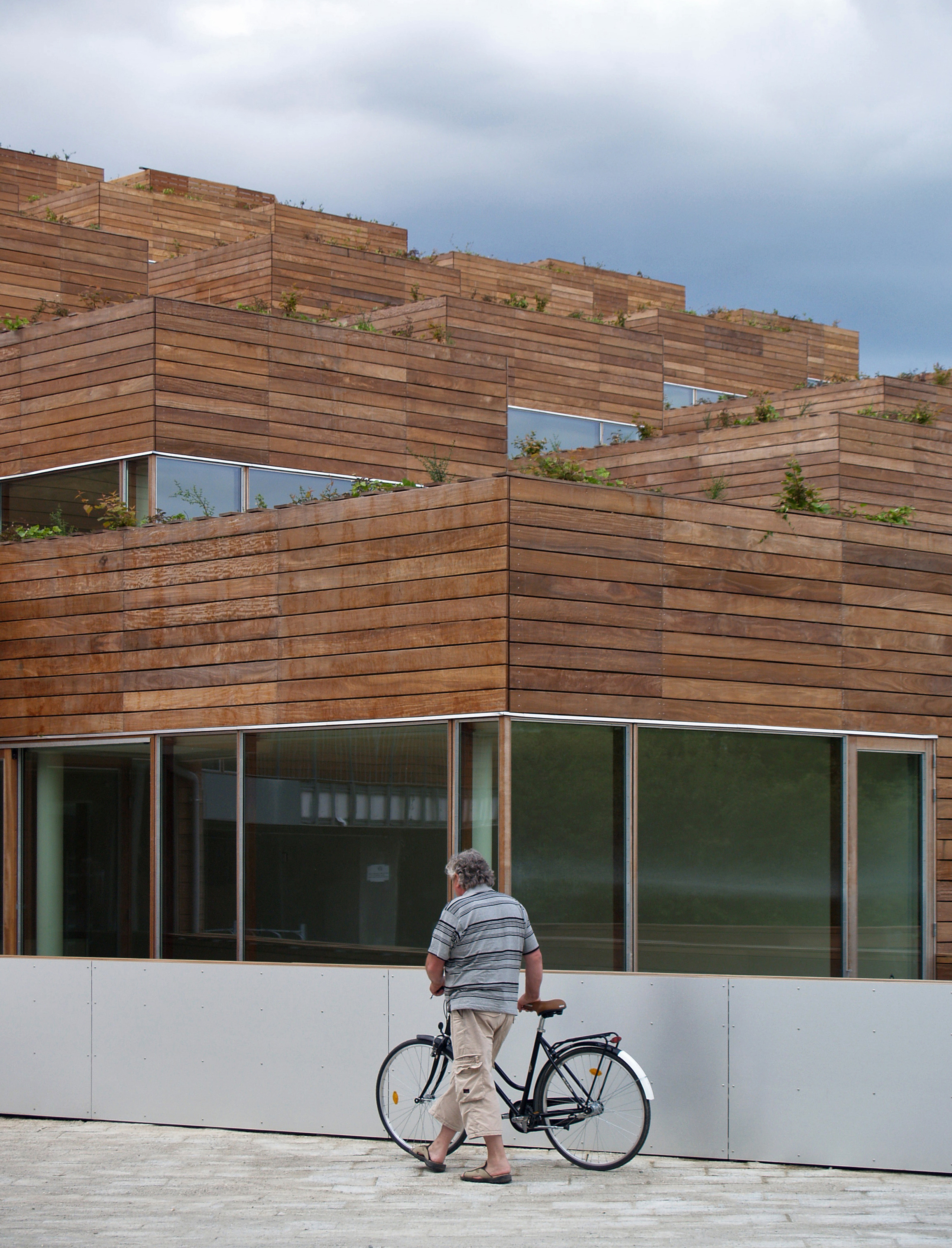 Mountain Dwellings (Danish: Bjerget), an award-winning building in the Ørestad district of Copenhagen, Denmark.